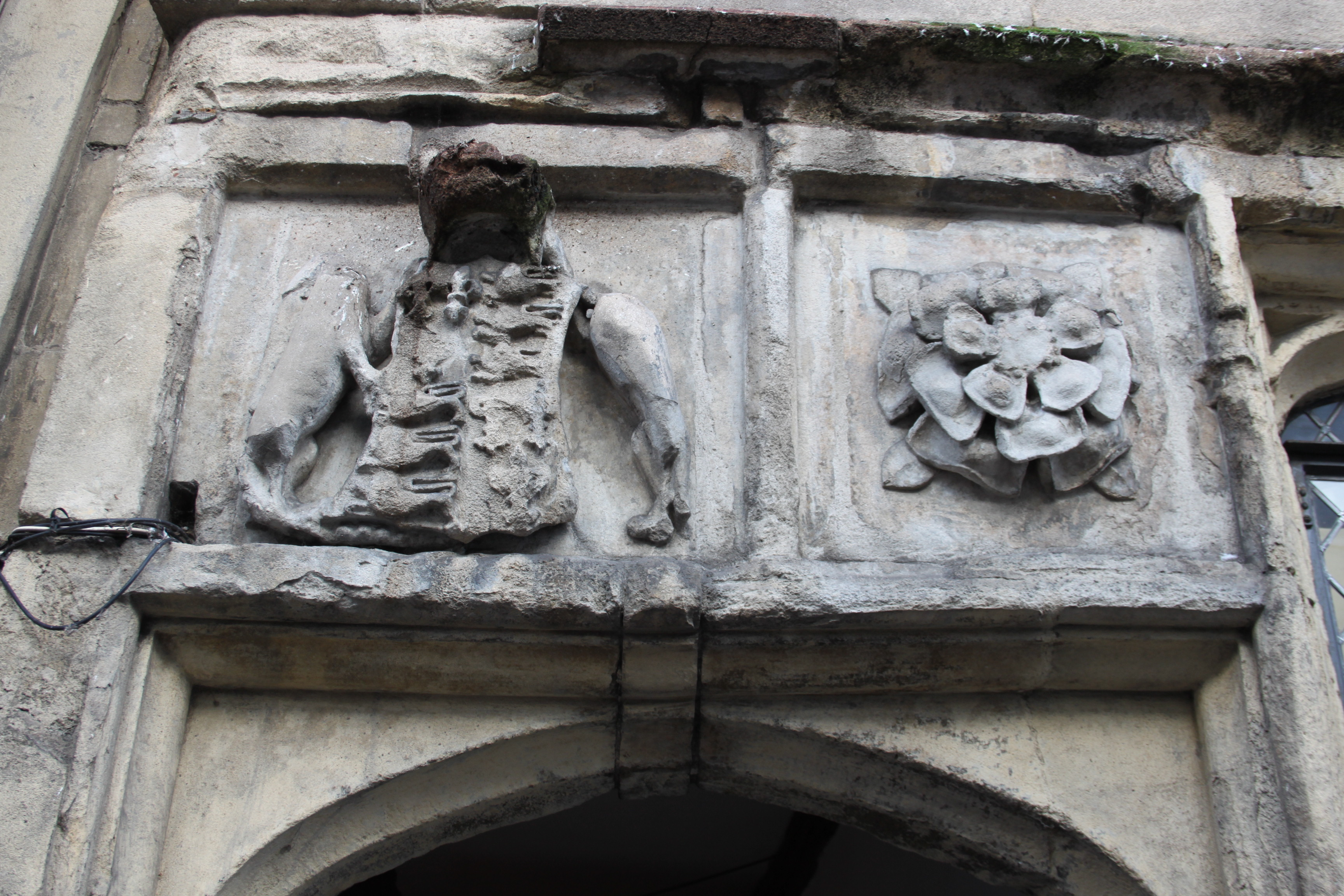 Glastonbury Tribunal plasterwork rose above the door